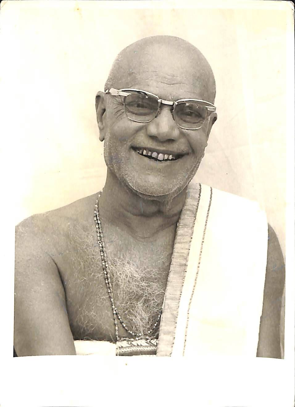 Gujarati Vishwakosh, Image 11